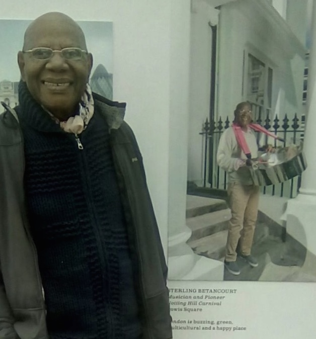 Sterling Betancourt stands in front his picture for there "I am London" exhibition at South bank town hall